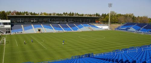 The Saputo Stadium, home venue for the Montreal Impact soccer team.